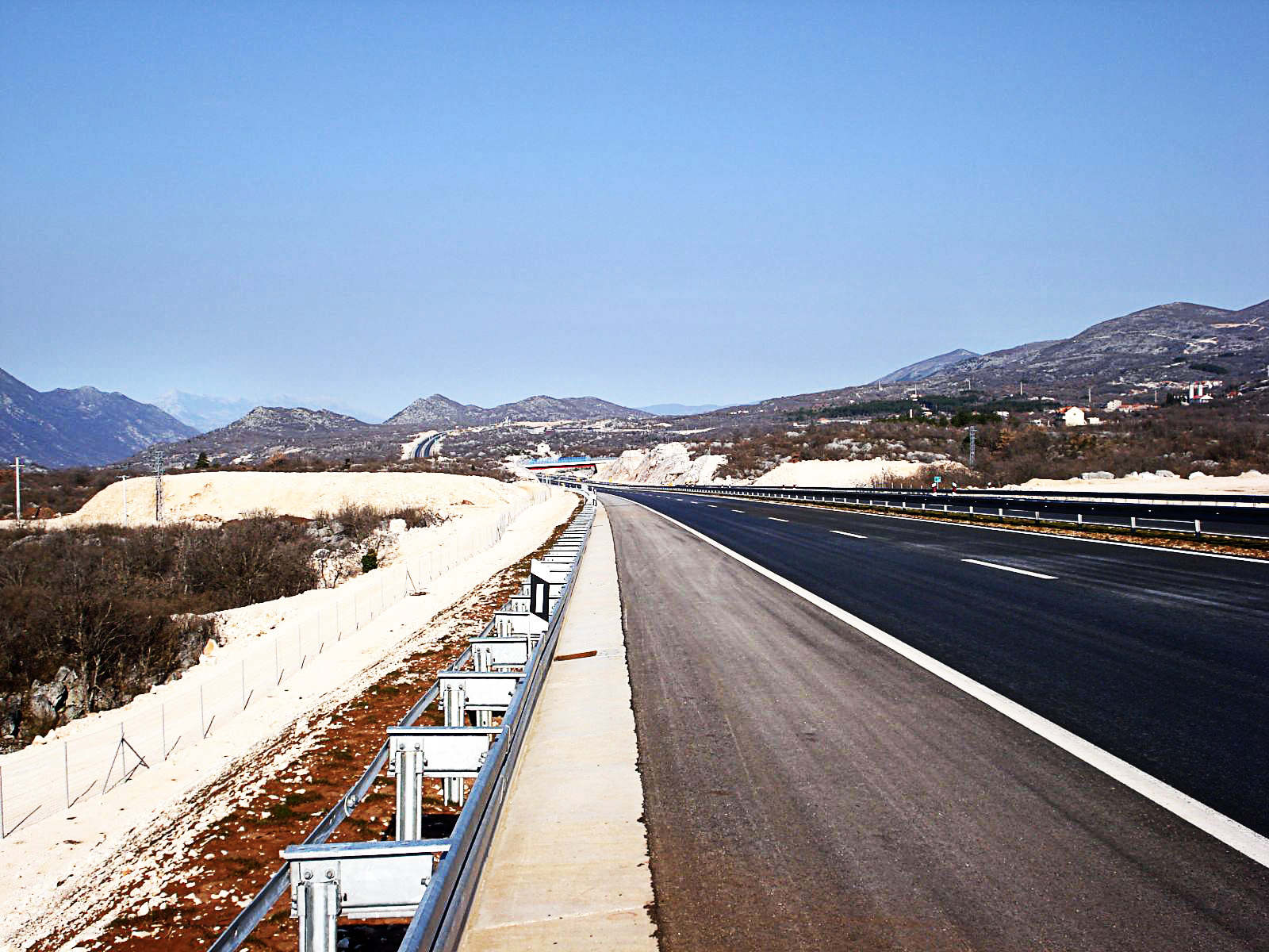 Croatian A1 Highway, near Zagvozd.